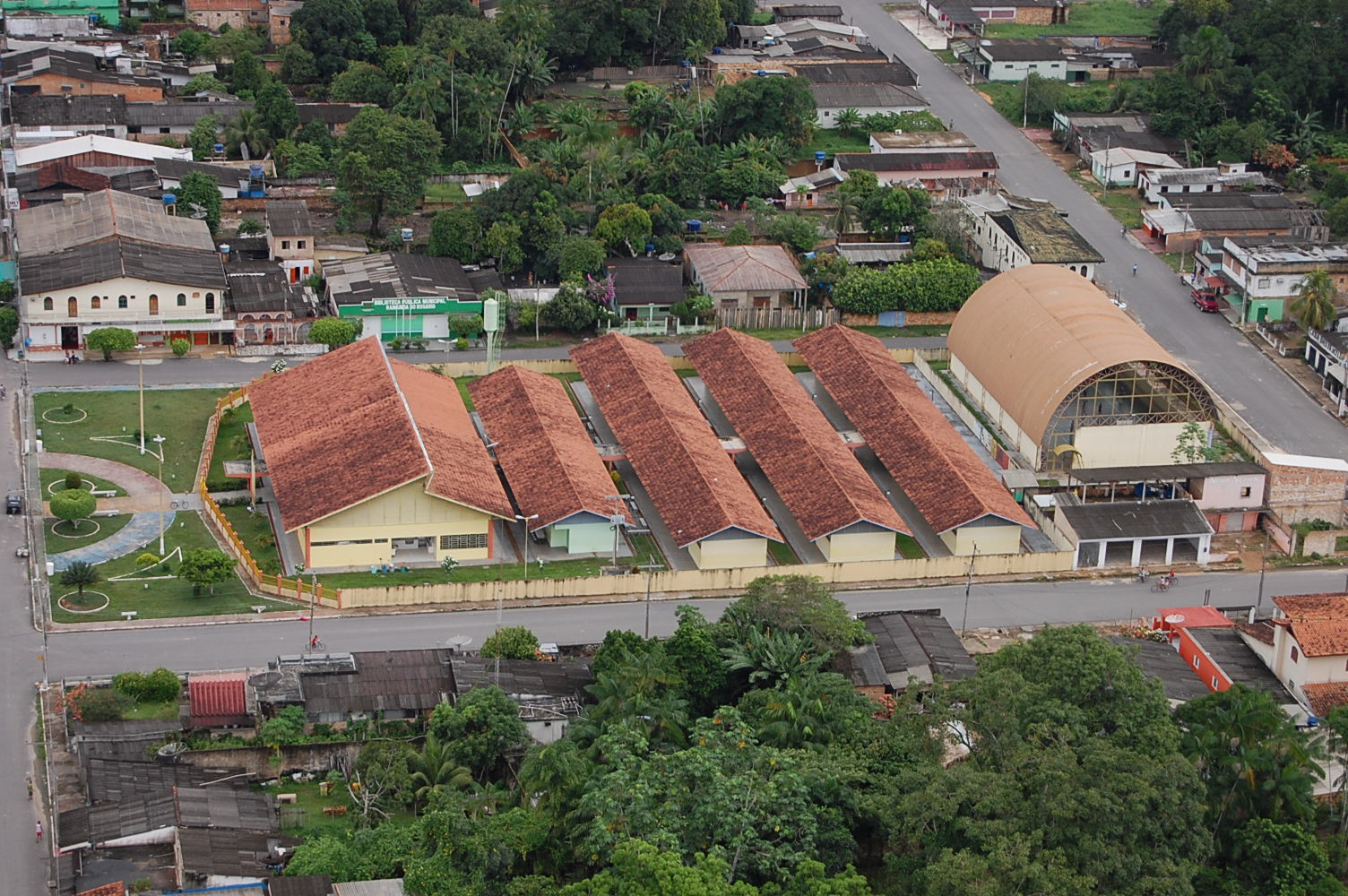 Ginásio Pedro Aguirre